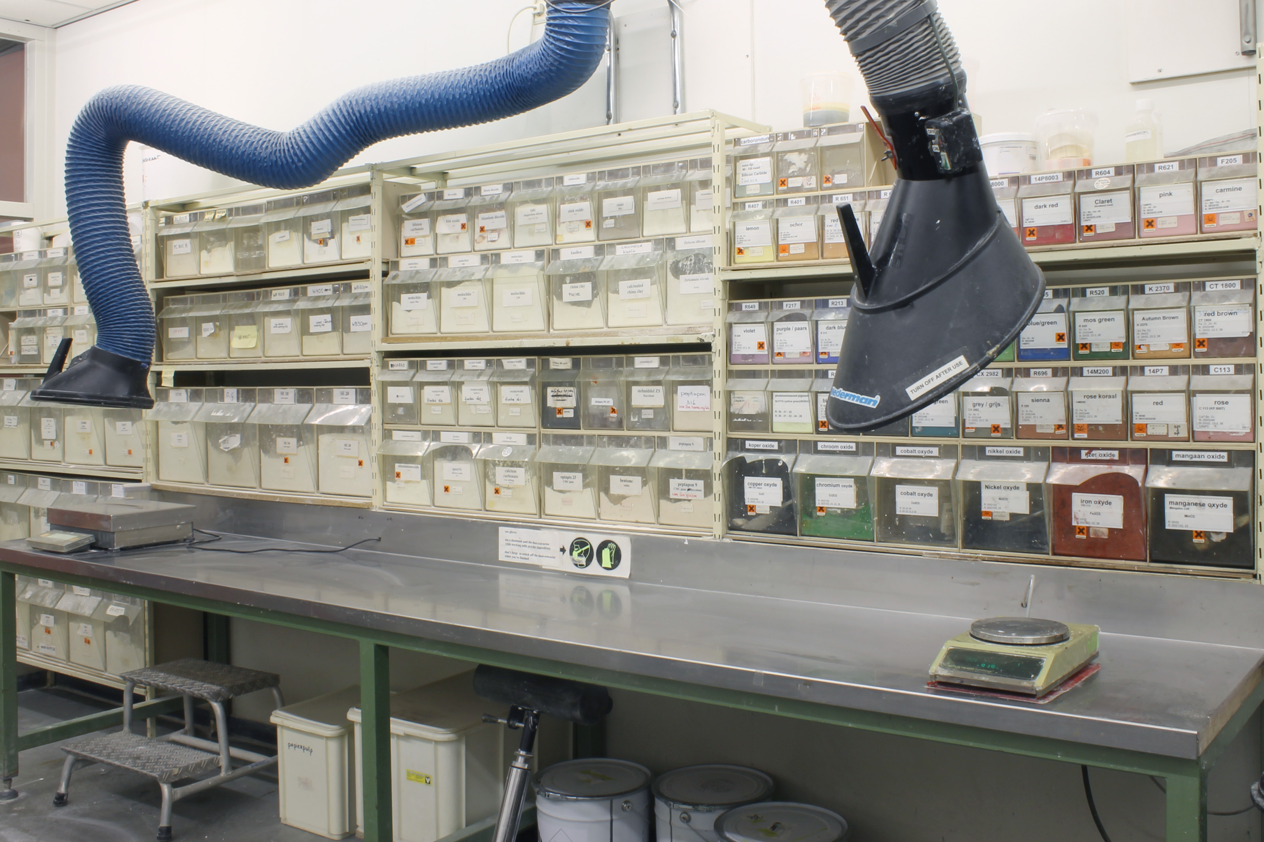 Glazeroom